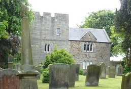 St James Church, Shilbottle, Graveyard